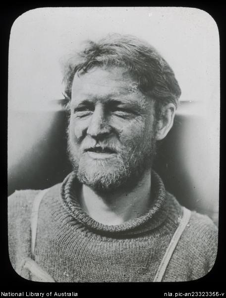 Cecil Madigan's frostbitten face, Adelie Land [Australasian Antarctic Expedition, 1911-1914]